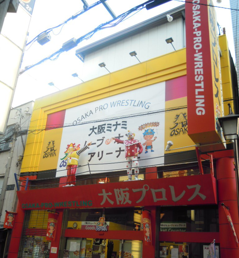 Osaka Minami MOVE ON Arena. Apr 16 2011.